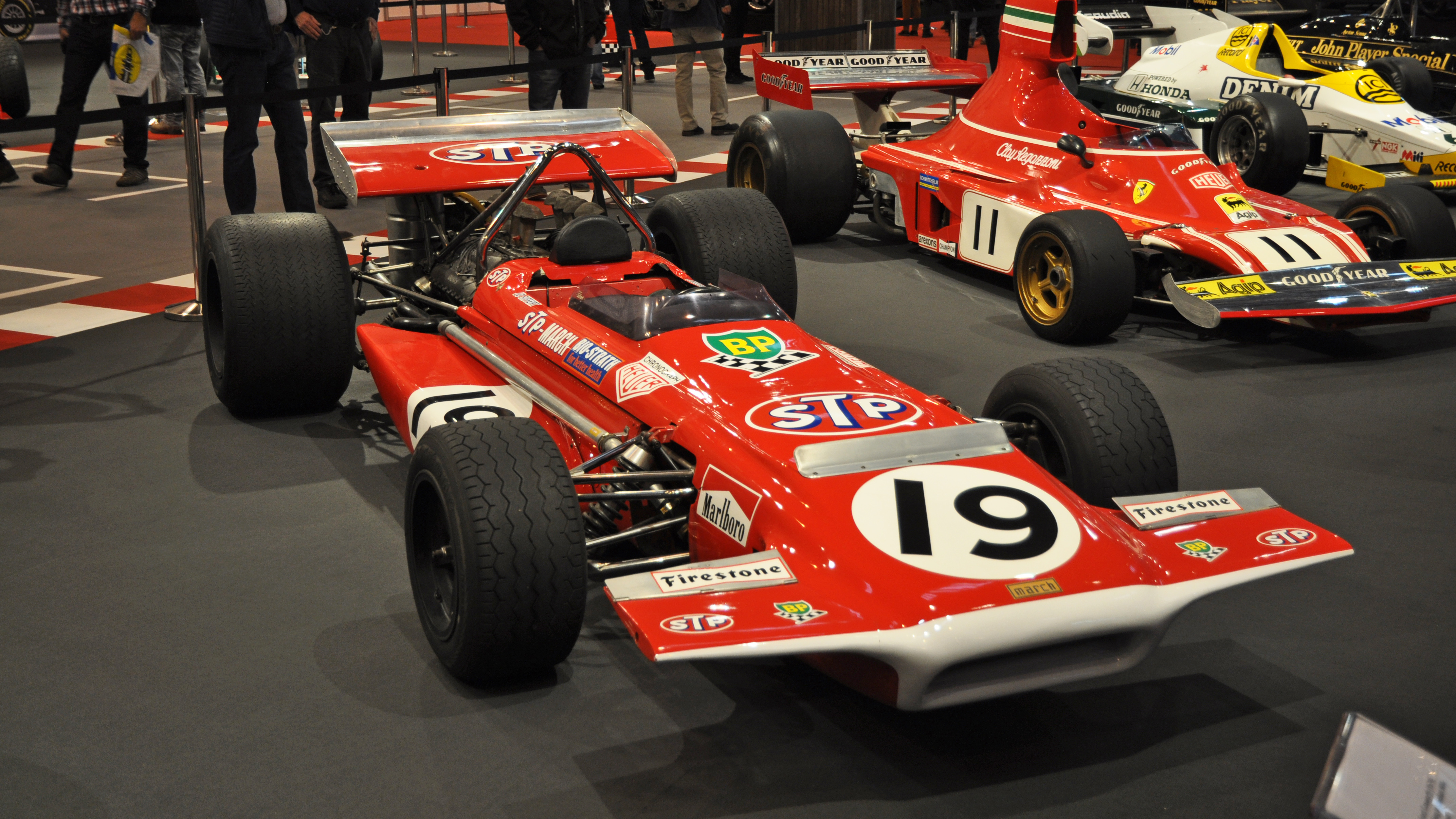 March 701-Ford Cosworth (1970) at Essen Motor Show 2015